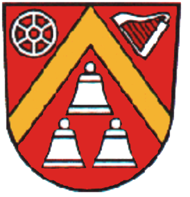 Coat of arms of Hundeshagen